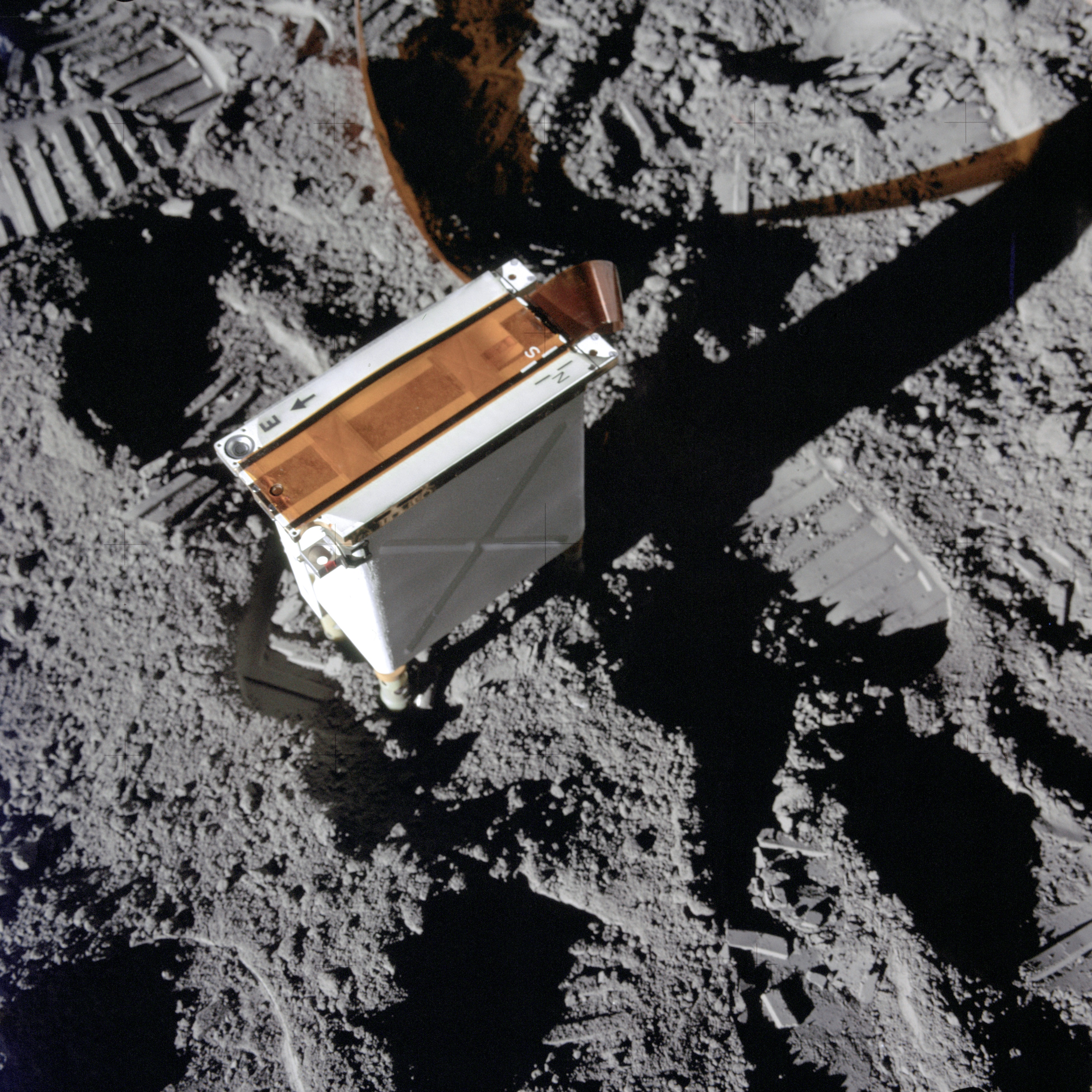 Apollo 14's CPLEE. A close-up view of the charged particle lunar environment experiment (CPLEE), a component of the Apollo lunar surface experiments package (ALSEP) which was deployed on the moon by the Apollo 14 astronauts. While astronauts Alan B. Shepard Jr., commander, and Edgar D. Mitchell, lunar module pilot, descended in the Lunar Module (LM) to explore the moon, astronaut Stuart A. Roosa, command module pilot, remained with the Command and Service Modules (CSM) in lunar orbit.